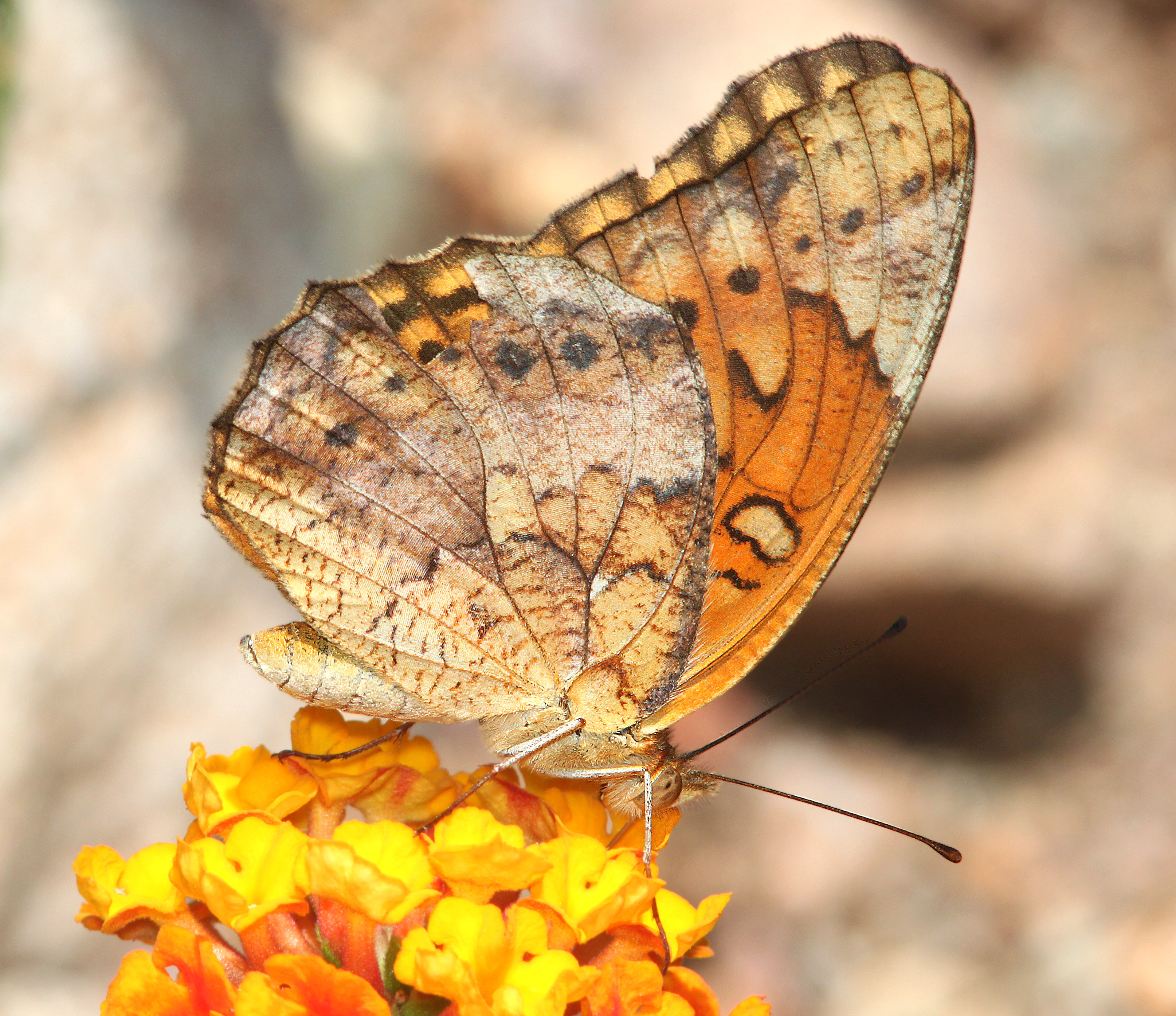 ARIZONA - BUTTERFLIES